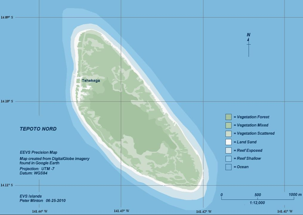 Map of Tepoto North Island, Tuamotu Archipelago, French Polynesia